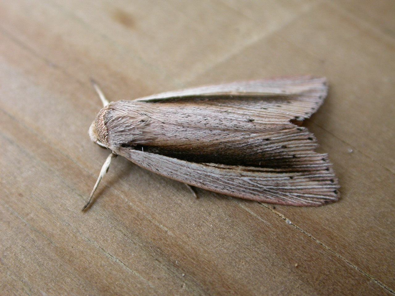 Senta flammea, Gastes, Landes, SW France, 1/2 July 2003